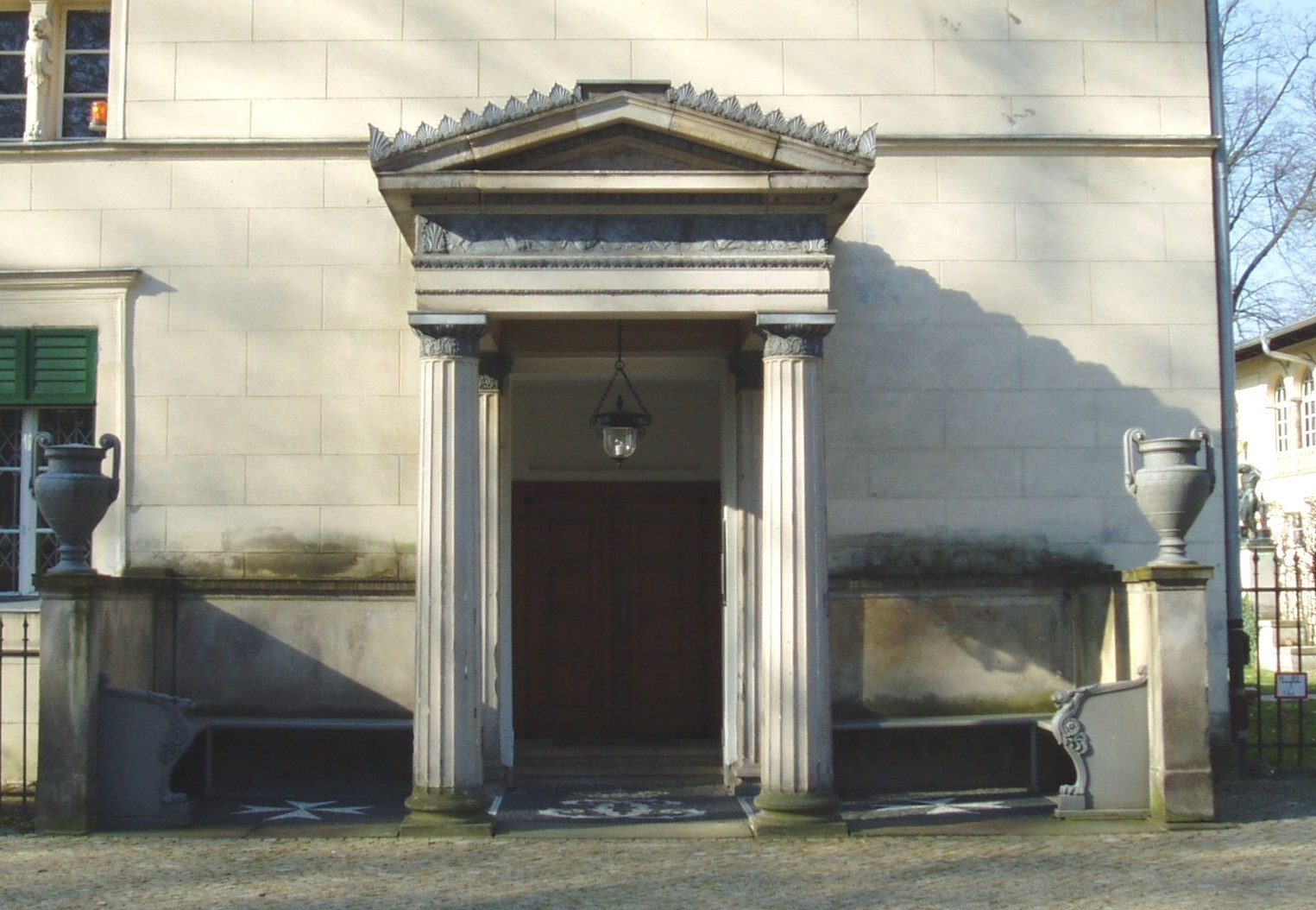 Portico, Glienicke castle, Berlin, Germany